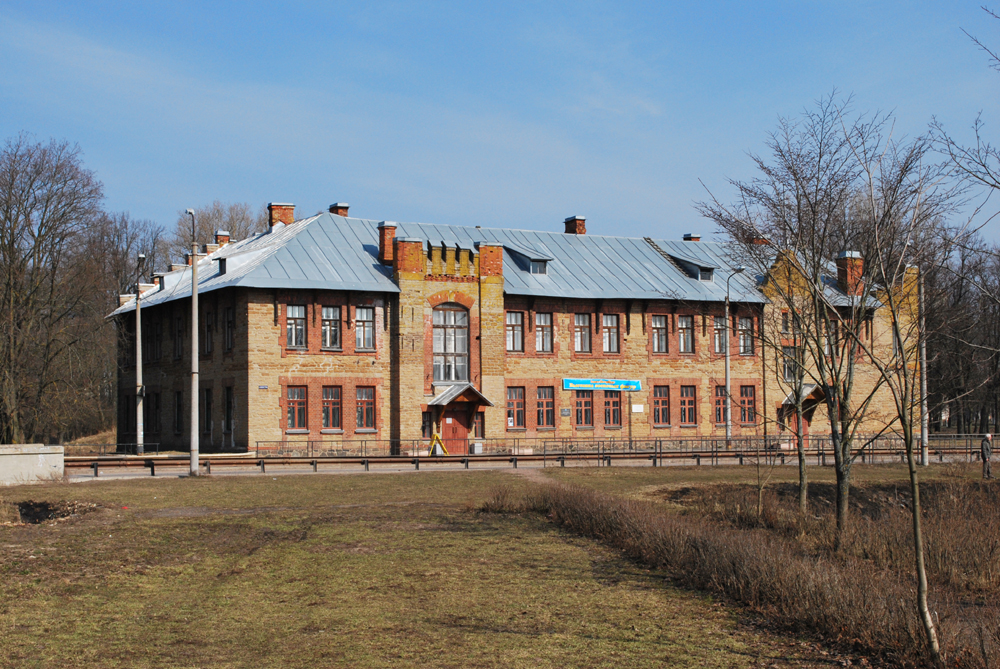 Kingisepp museum